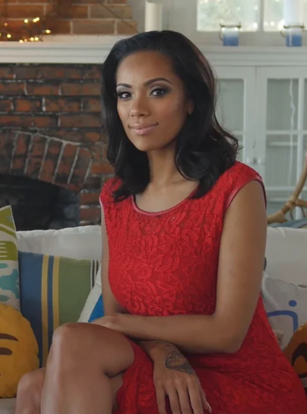 Erica Mena Cover Shoot with Pure DOPE Magazine at The Mobli Beach House in Venice Beach - Summer 2k15